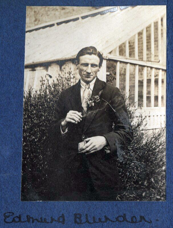 Edmund Blunden by Lady Ottoline Morrell, vintage snapshot print, 1920